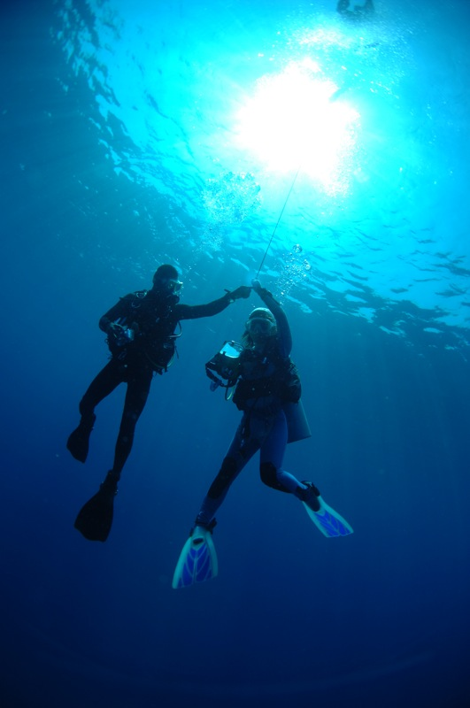 With my video in Similan of Thailand